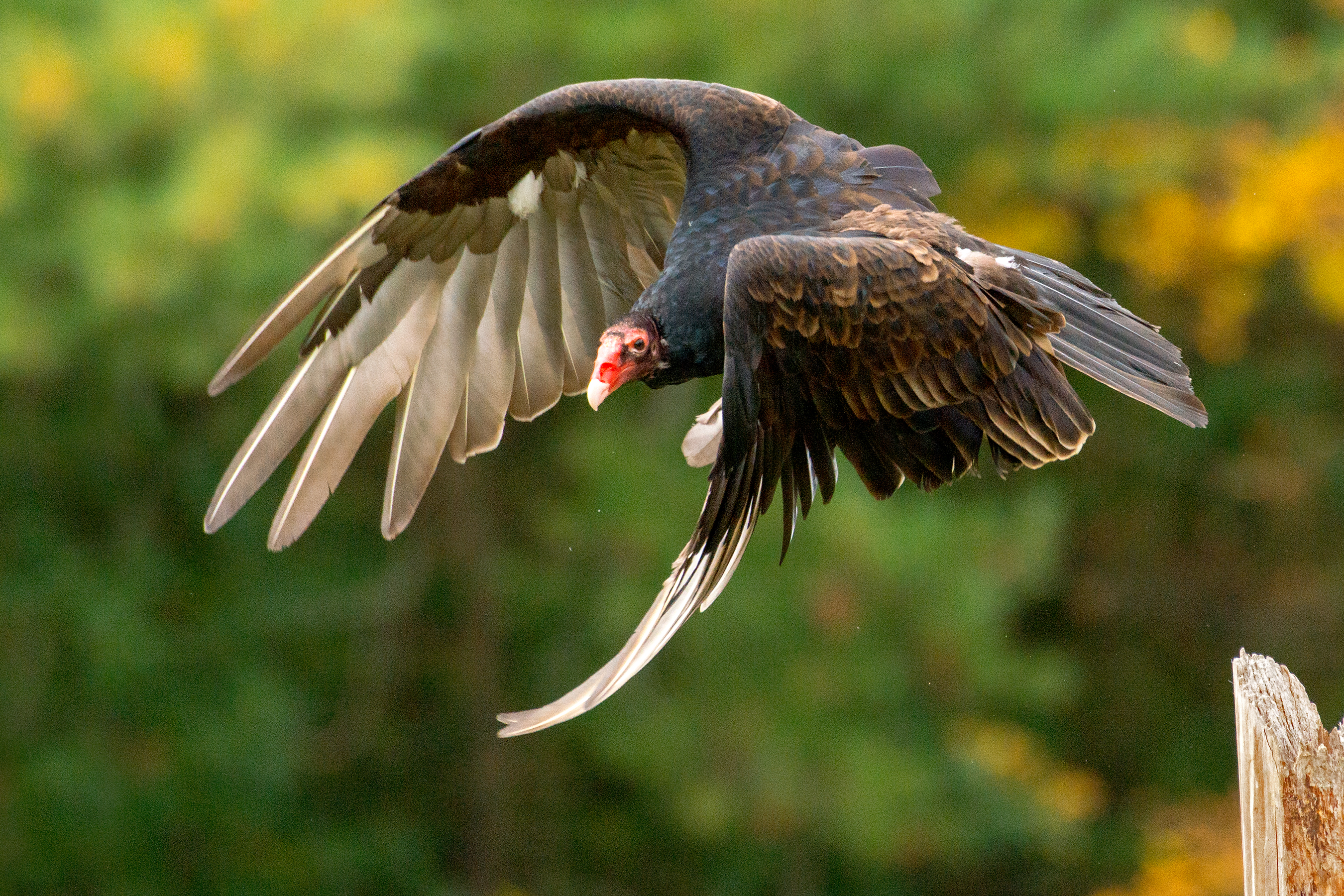 Turkey Vulture in flight, C. a. septentrionalis (Canada)